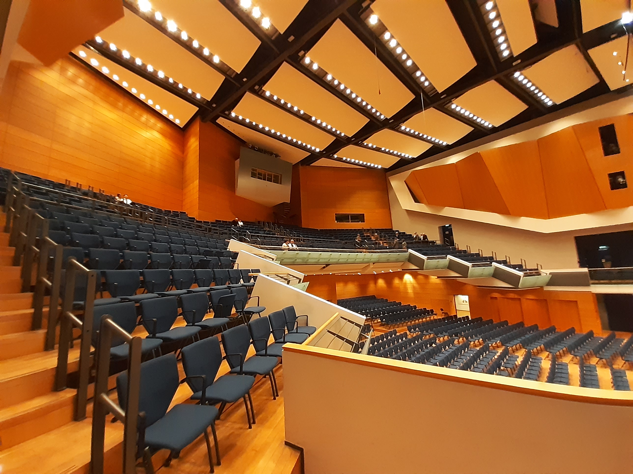 Concert hall "Georg Friedrich Händel", Salzgrafenplatz No. 1, Halle (Saale)